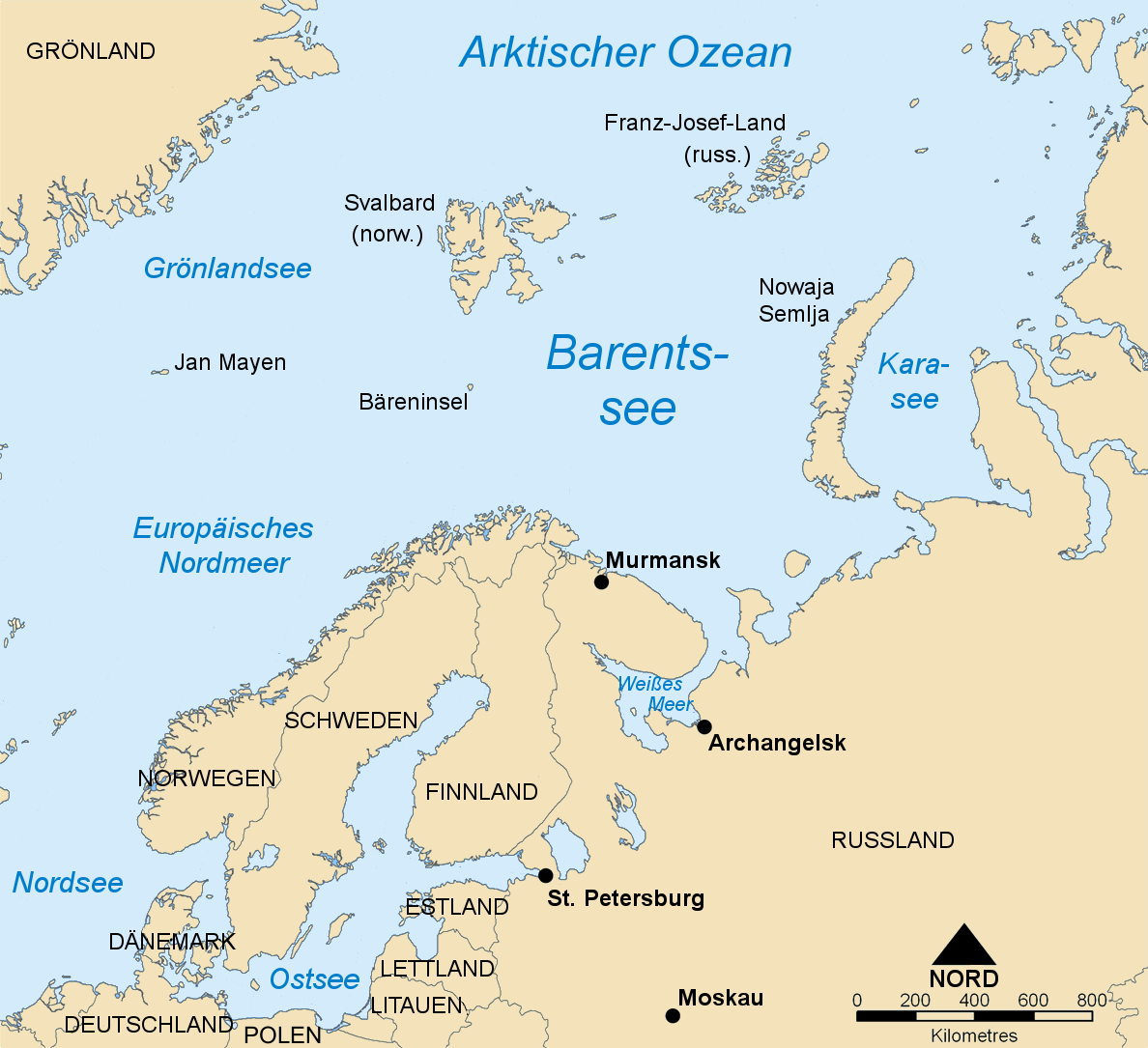 This map shows the location of the Barents Sea north of Russia and Norway, and the surrounding seas and islands, with German labels.